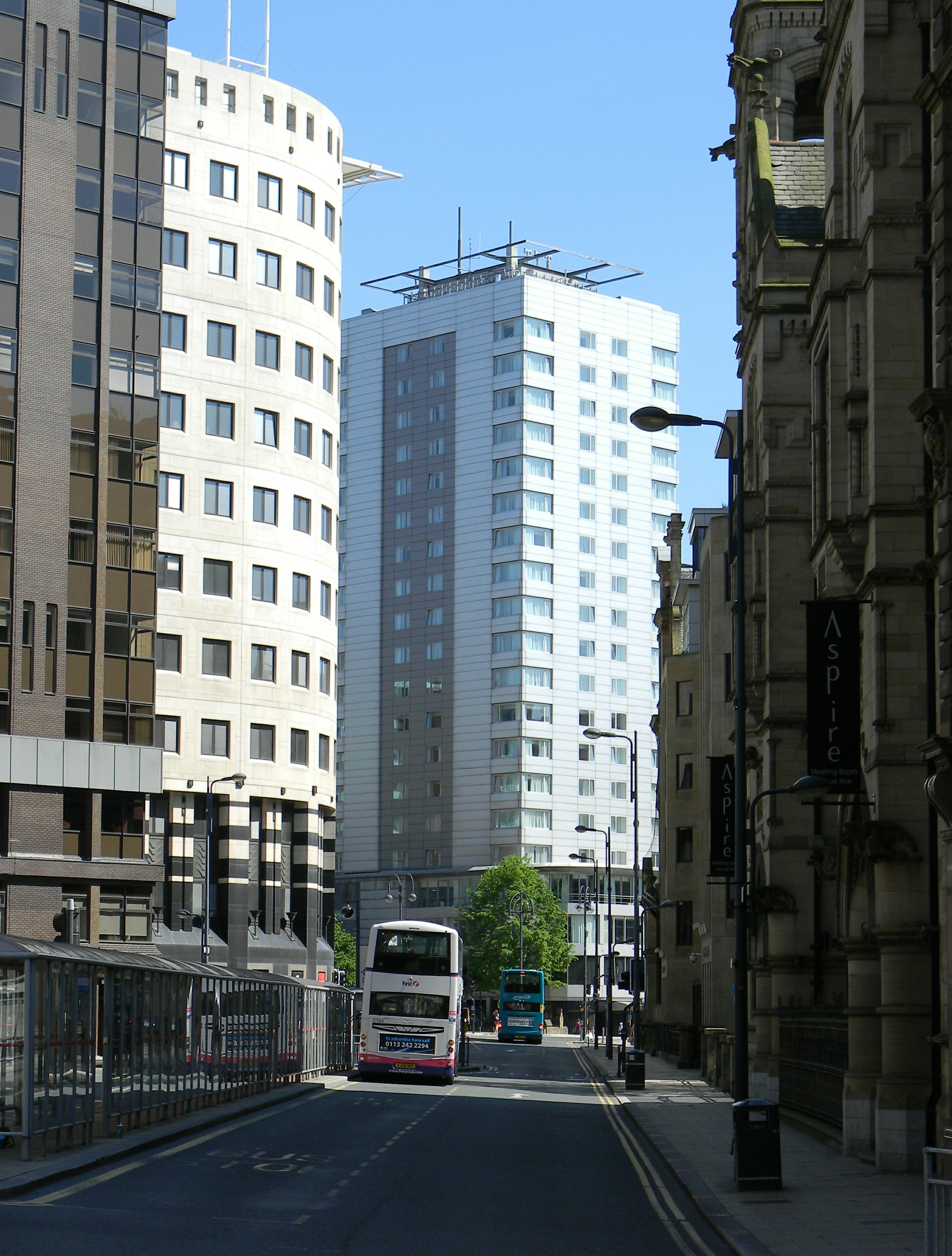 Infirmary street, in Leeds is in the heart of the city's finanical district